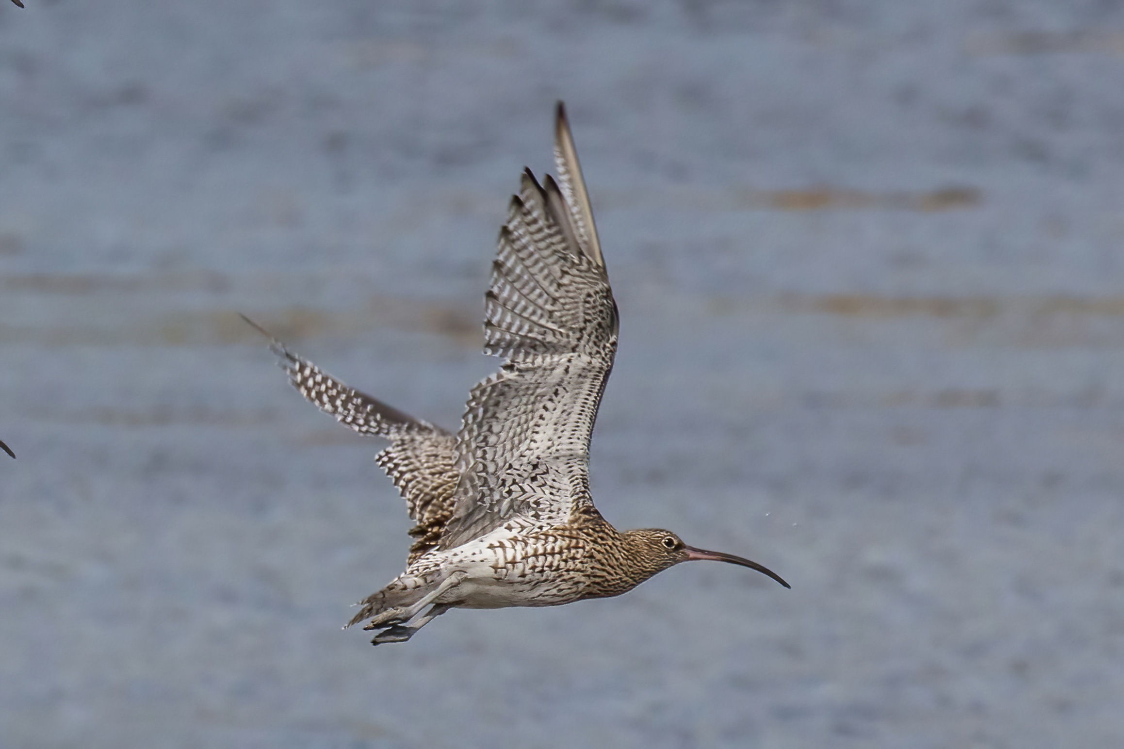 Curlew (Numenius arquata) in flight, Argyll